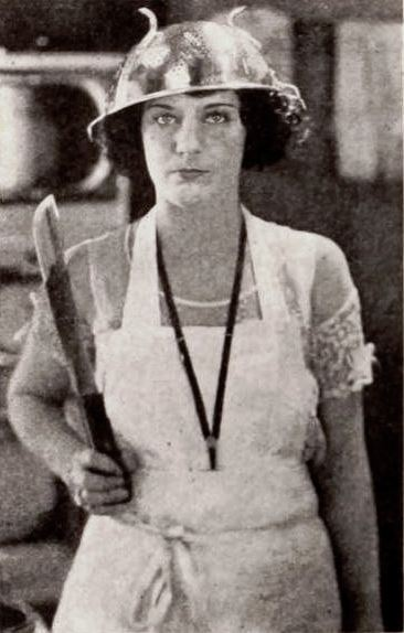 Still from American comedy film The Fourteenth Lover (1922) with Viola Dana, on page 64 of the December 3, 1921 Exhibitors Herald.